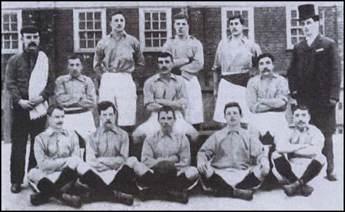 English football club Thames Ironworks in 1897. Some of its players are (back): George Neill, David Furnell, Walter Tranter. (front row): Jimmy Reid (second from left) and George Gresham (second from right).